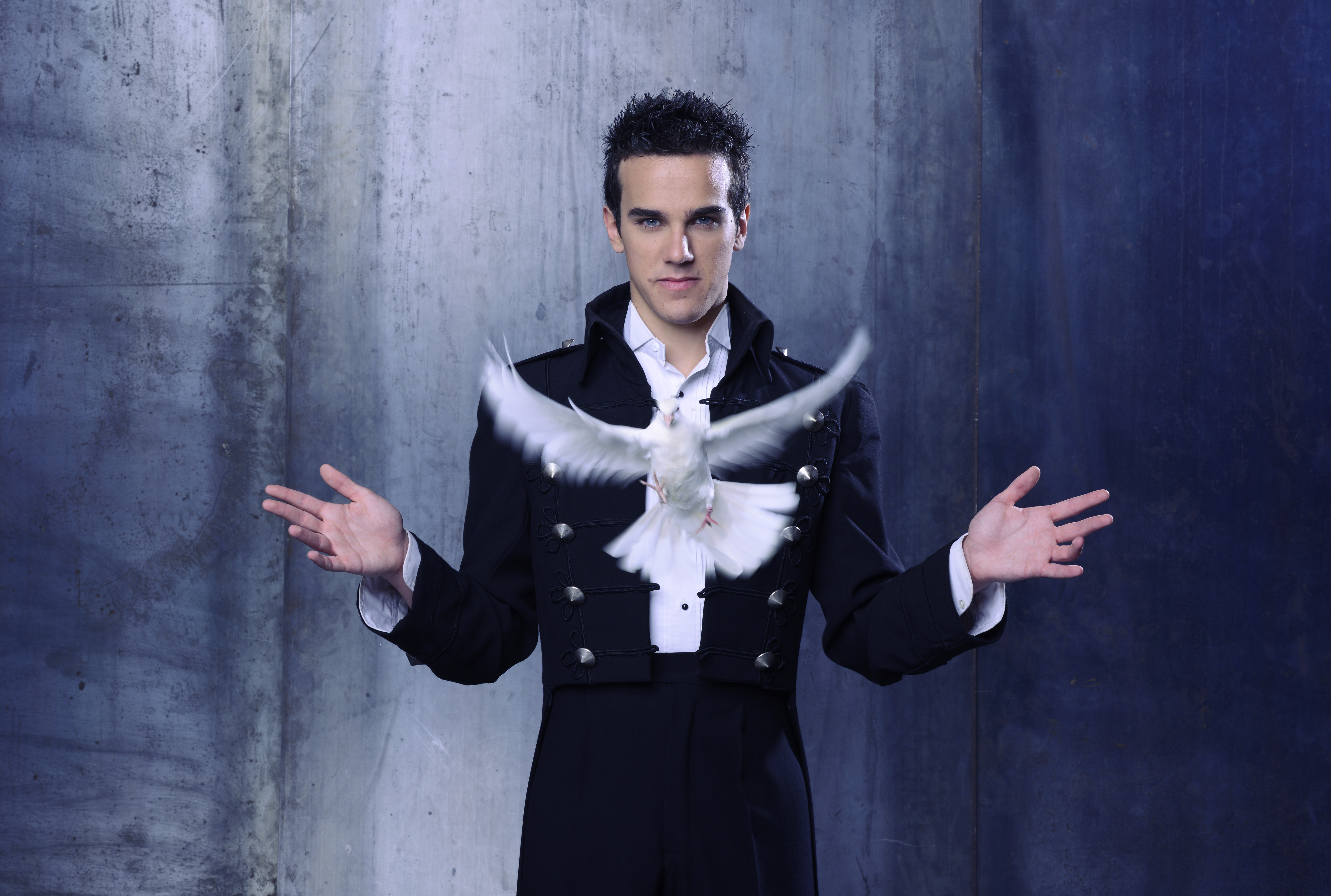 Photo of the Italian Champion of Magic Luca Bono with a dove.